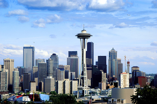 Seattle skyline from Queen Anne Hill